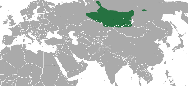 Altai Mole (Talpa altaica) range